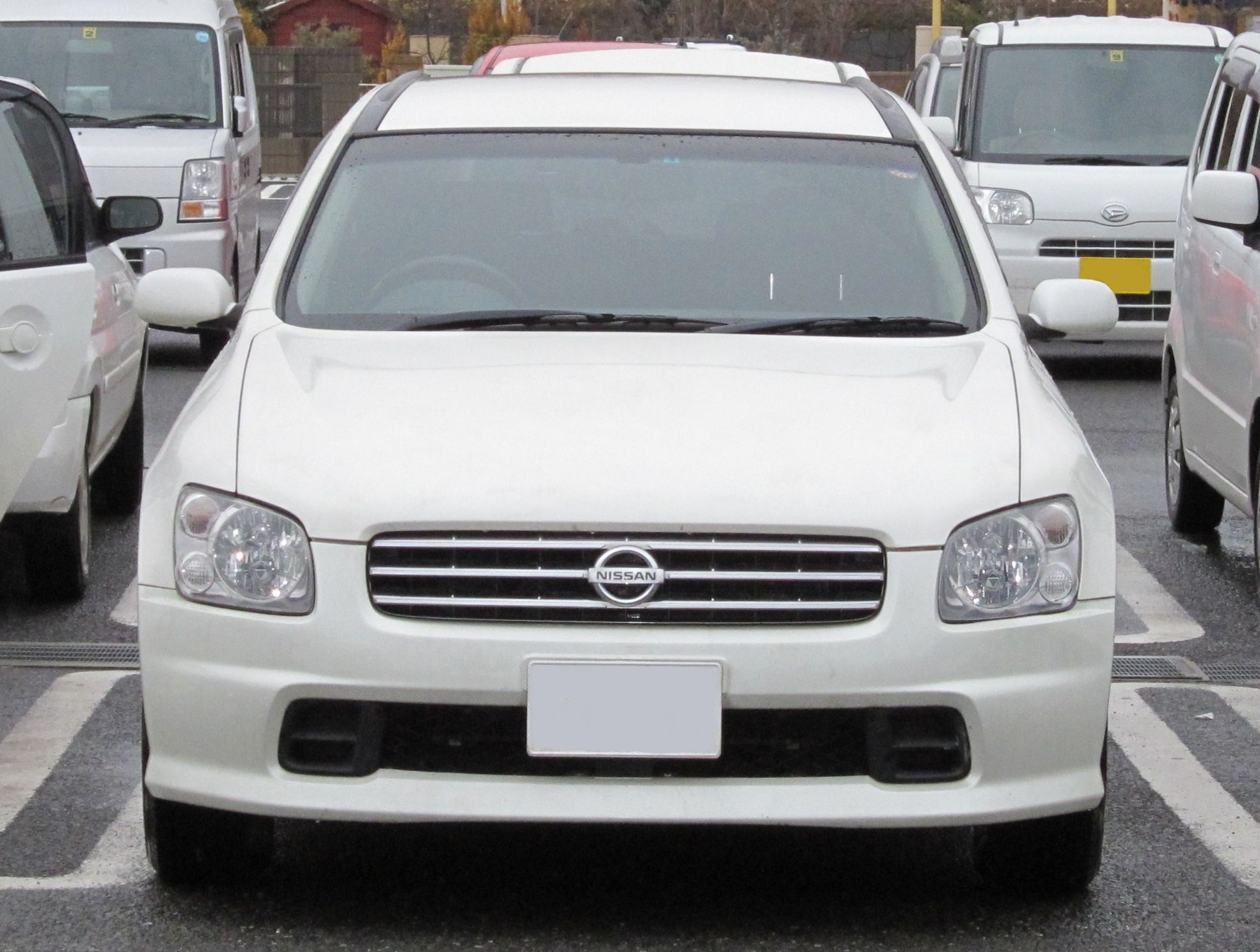 NISSAN STAGEA